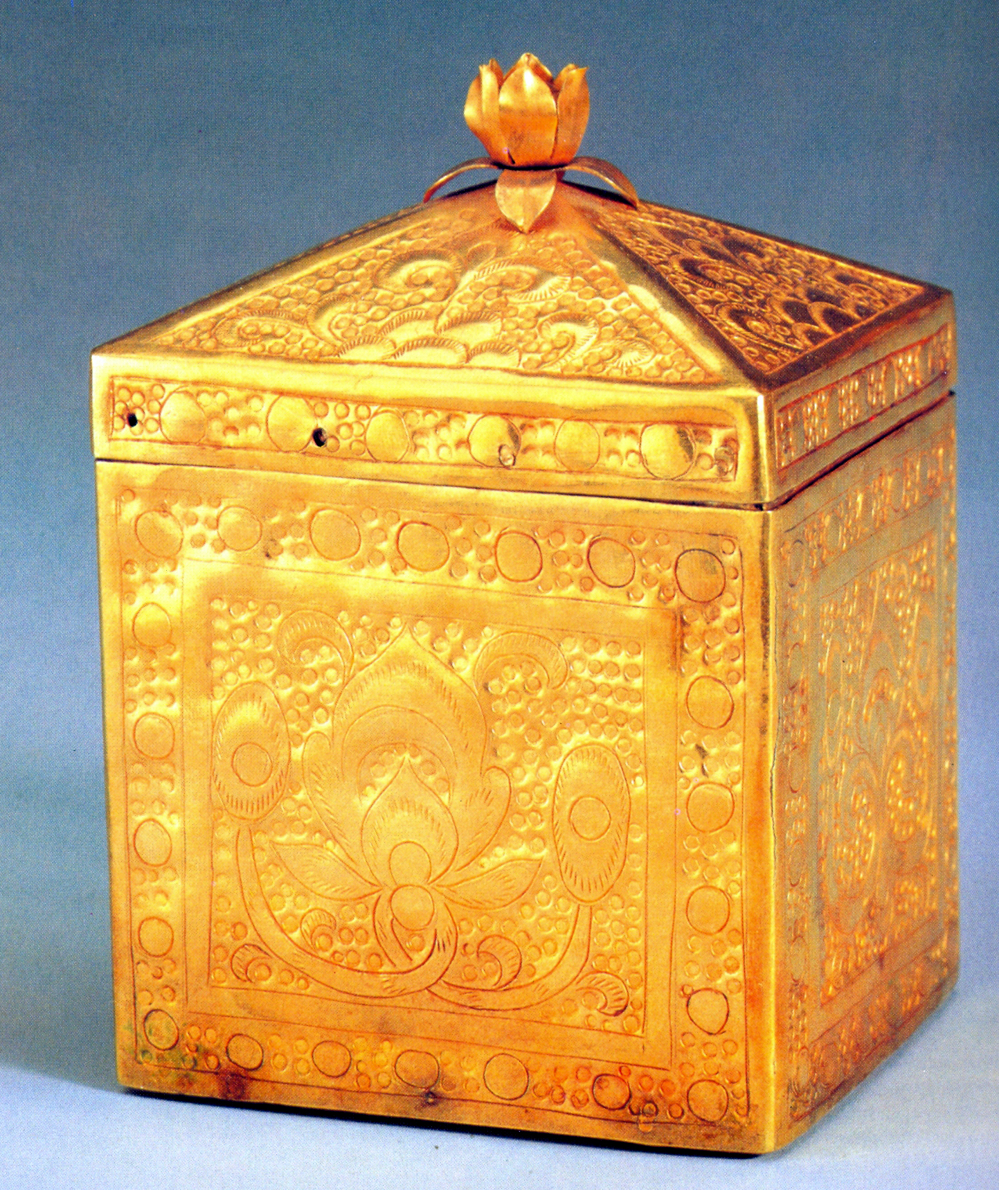 Reliquary of the Five-story Stone Pagoda at Wanggung-ri in Iksan, Korea